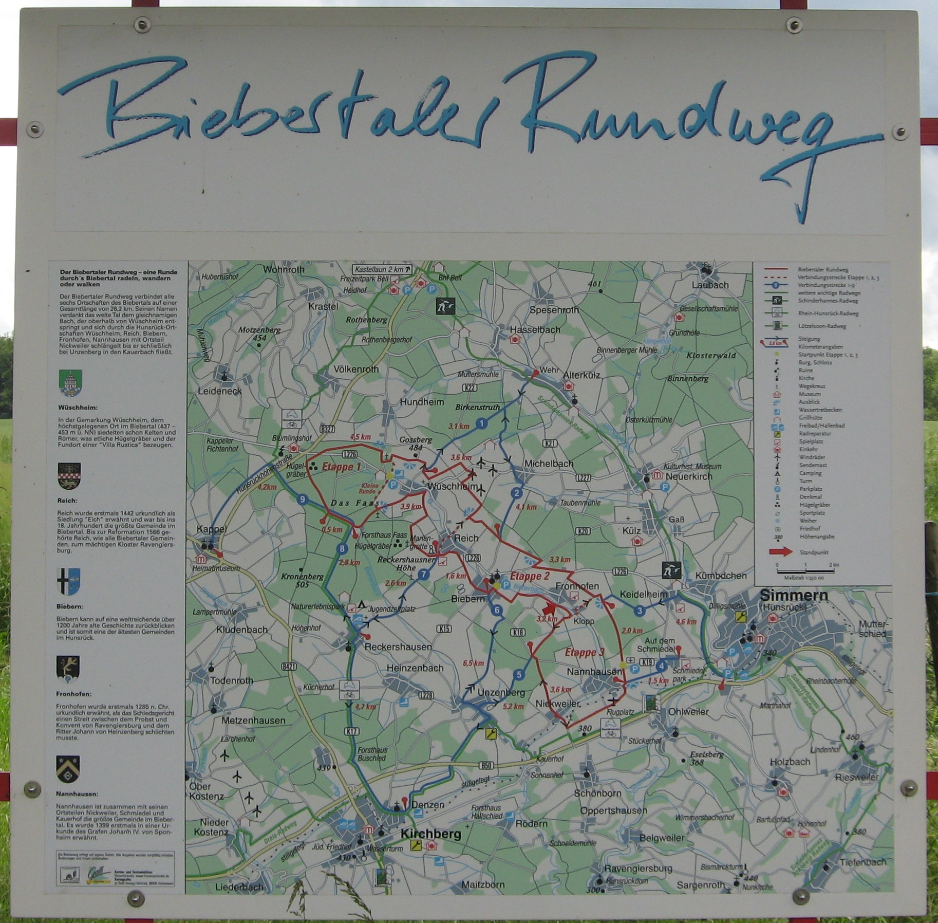 Sign Biebertal Rundweg near Fronhofen in the Hunsrük landscape.